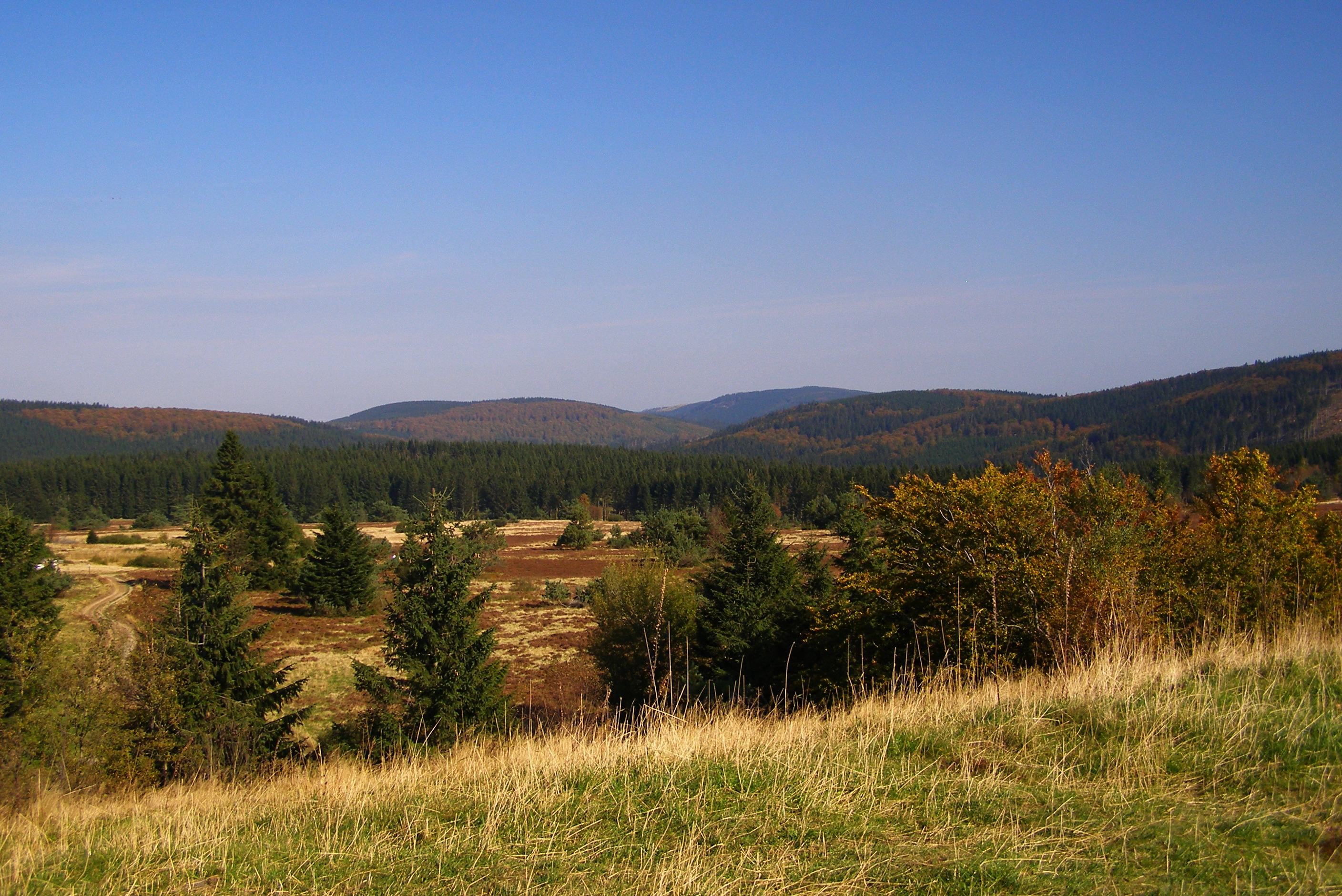 Hochheide near Niedersfeld (Germany)